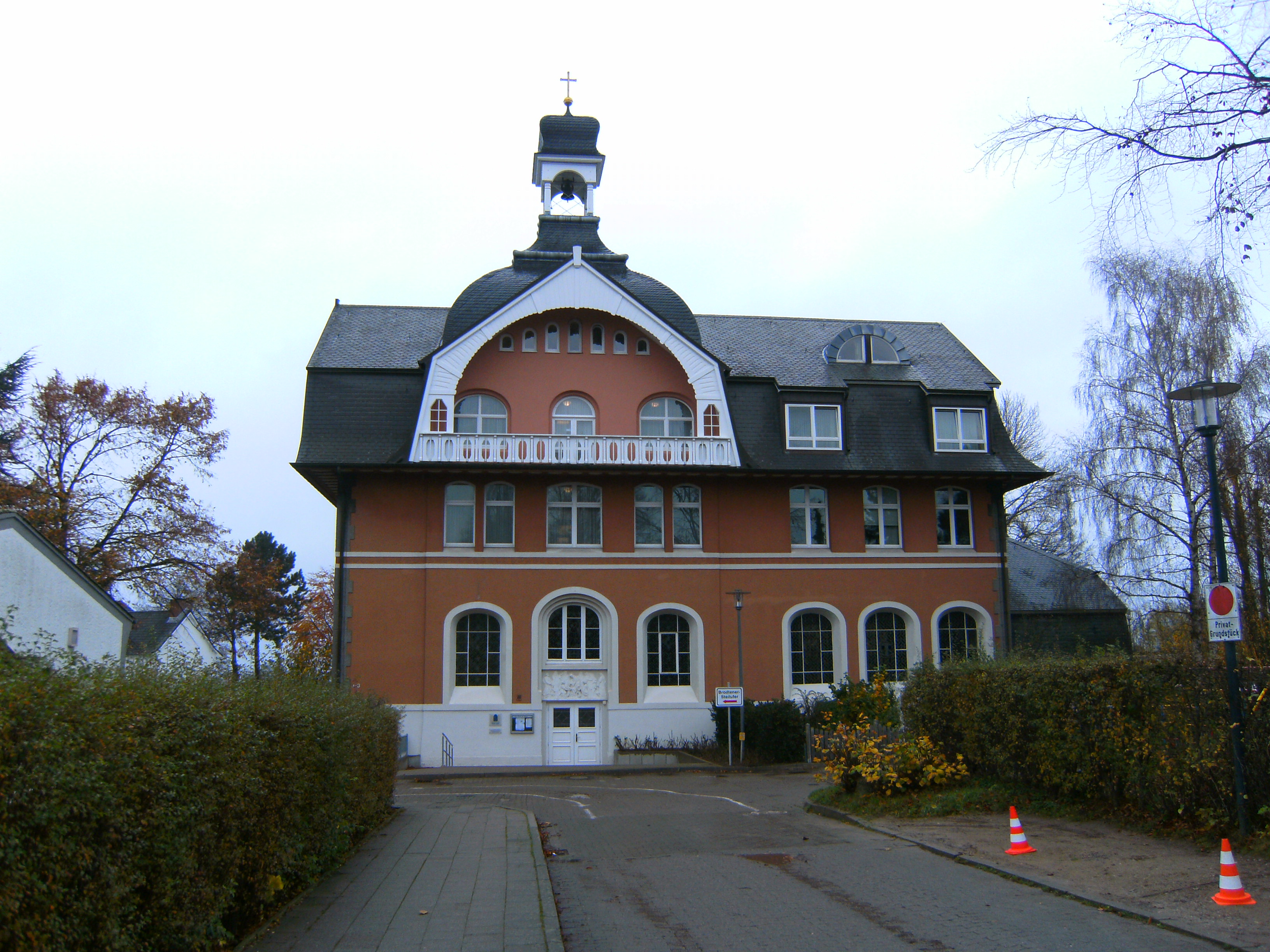 Niendorf (Timmendorfer Strand), Germany: View on catholic church St. Johann of the clinic Maria Meeresstern.